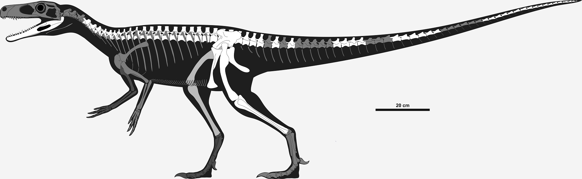 Digital drawing of the known skeletal remains of Staurikosaurus pricei. Known elements represented in white and unknown in gray.